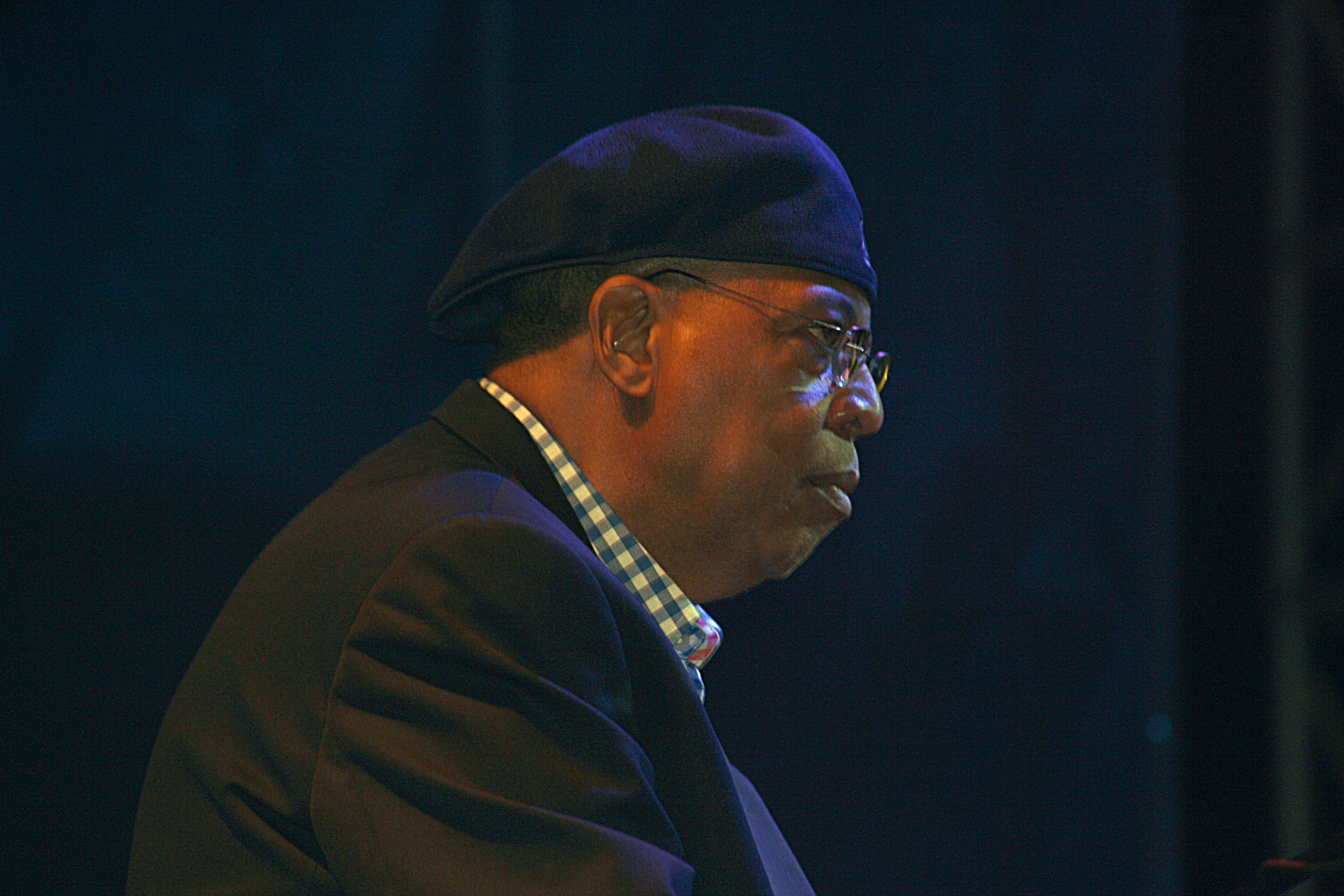 Cuban pianist, bandleader, composer and arranger Chucho Valdés at FMM Festival in Sines/Portugal 2009